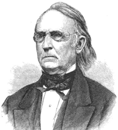 William T. Jackson, Congressman from New York